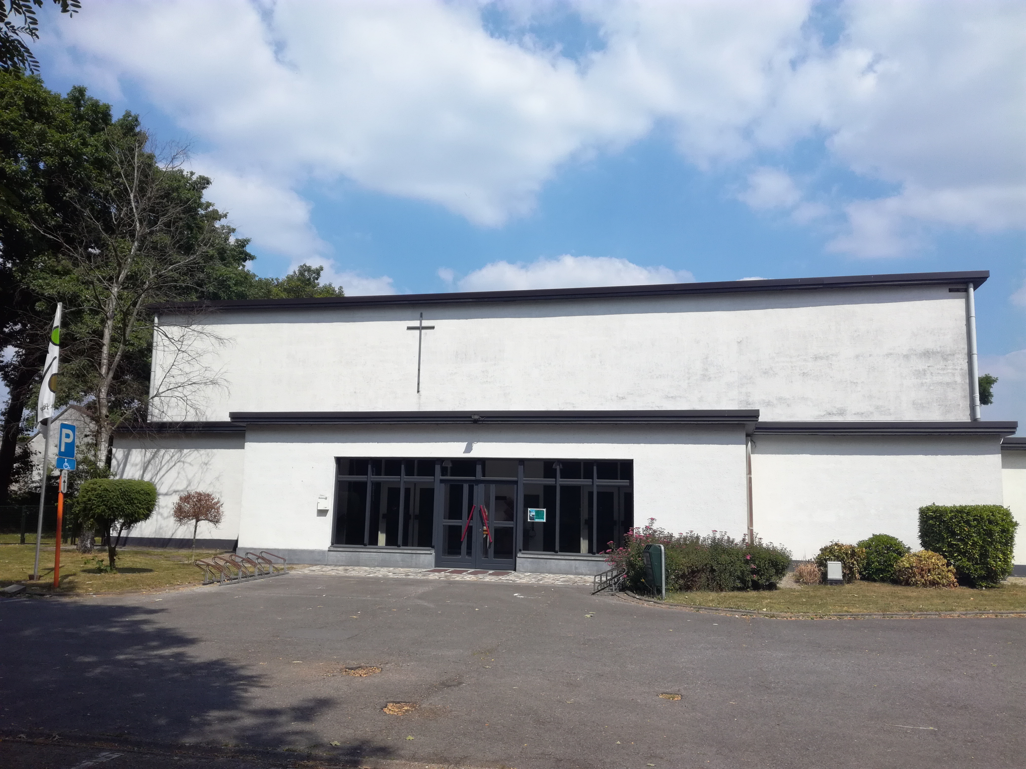 Sint Janskerk in Heide, Kuringen, Hasselt